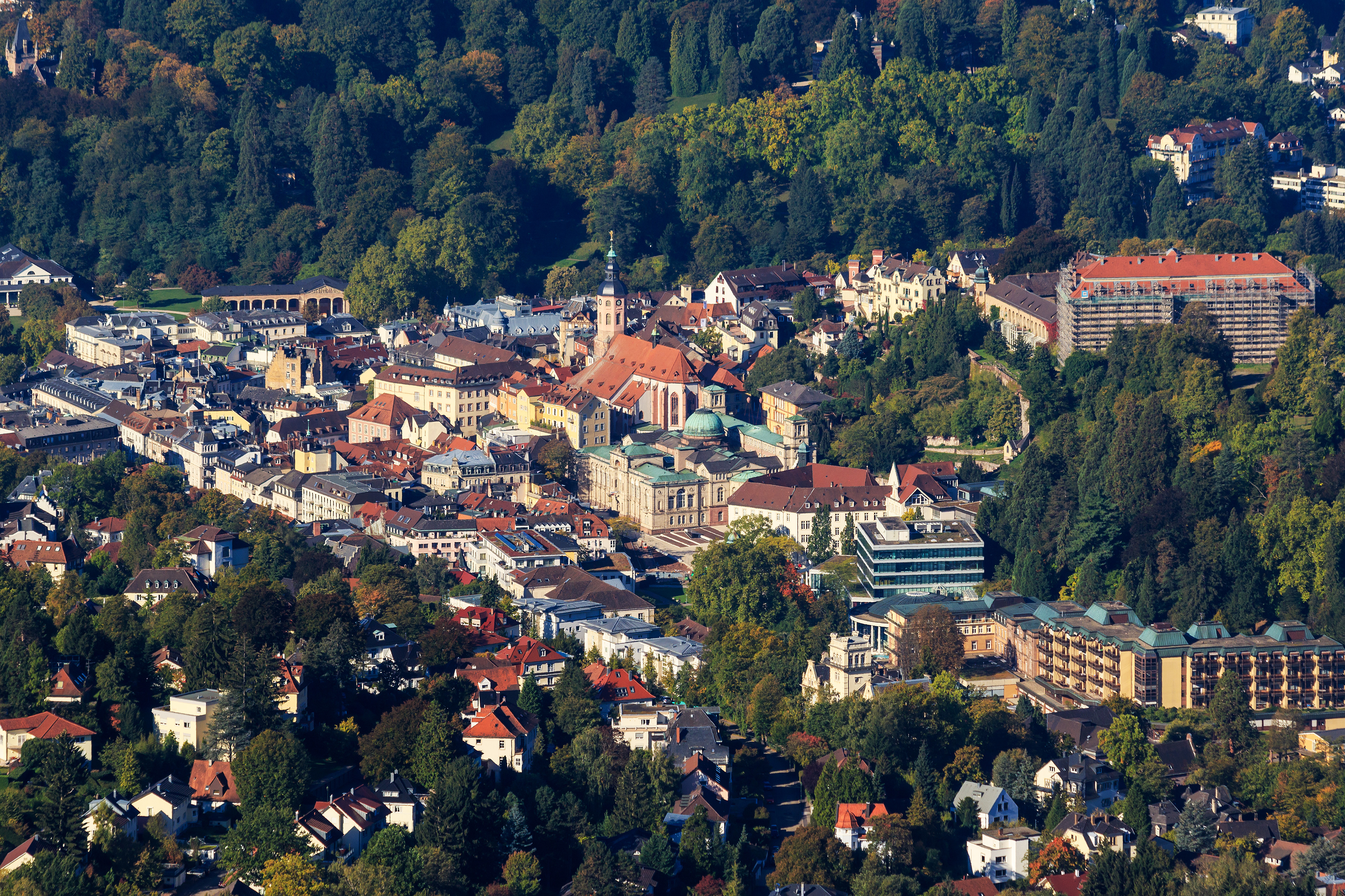 View from Merkur in Baden-Baden (BW, Germany). This photo shows the view towards the centrum of Baden-Baden.